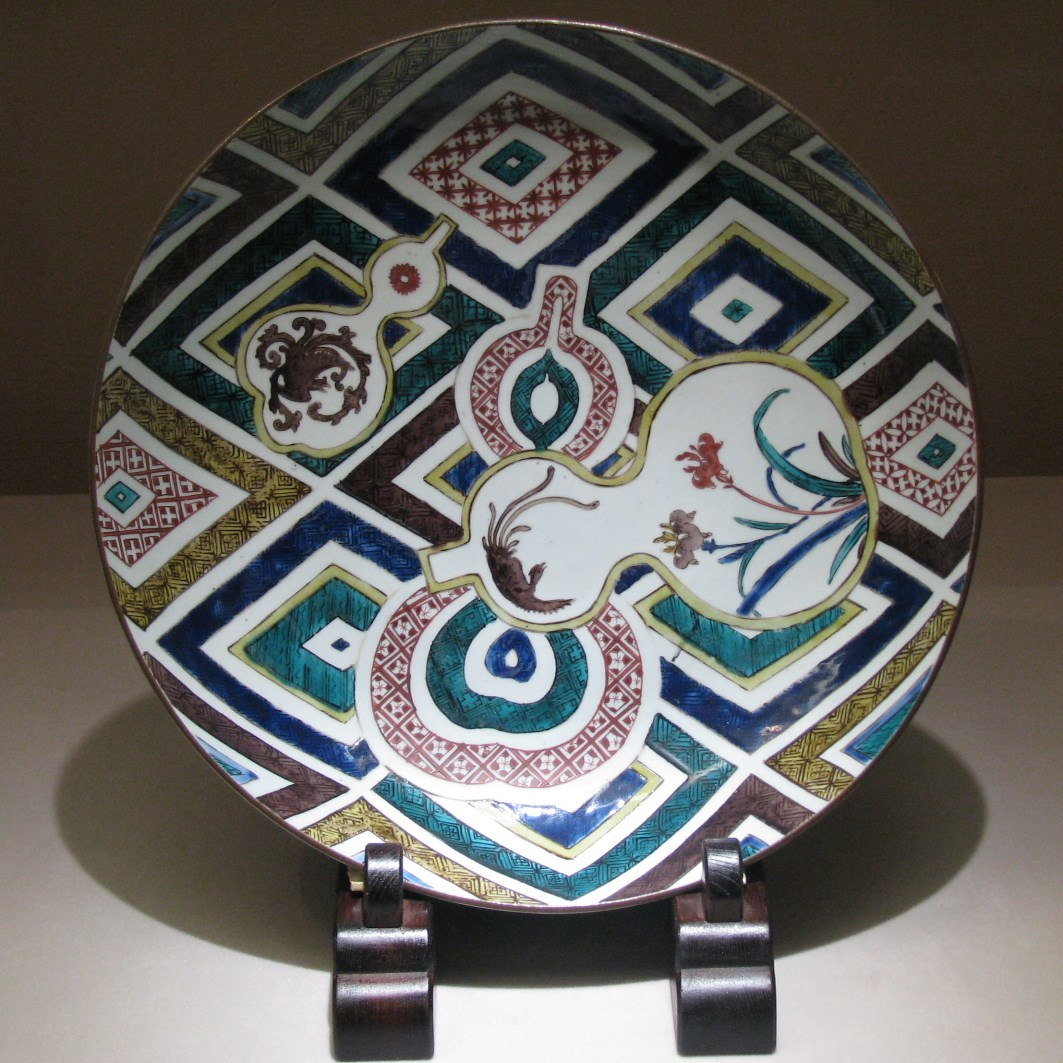 Large dish Ko-Kyutani style, Arita ware (Edo-period) at MOC